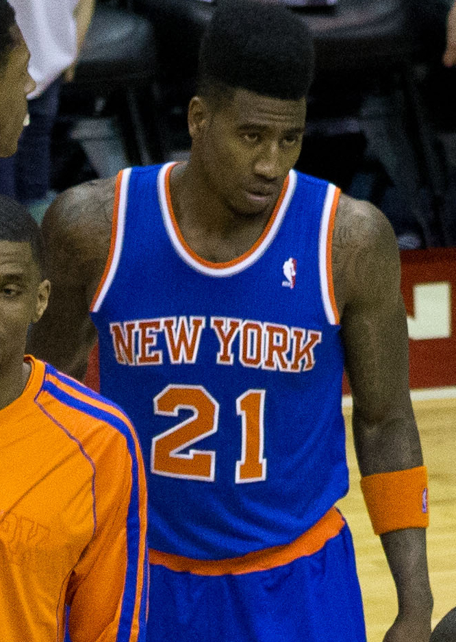 Iman Shumpert, New York Knicks at Washington Wizards March 1, 2013